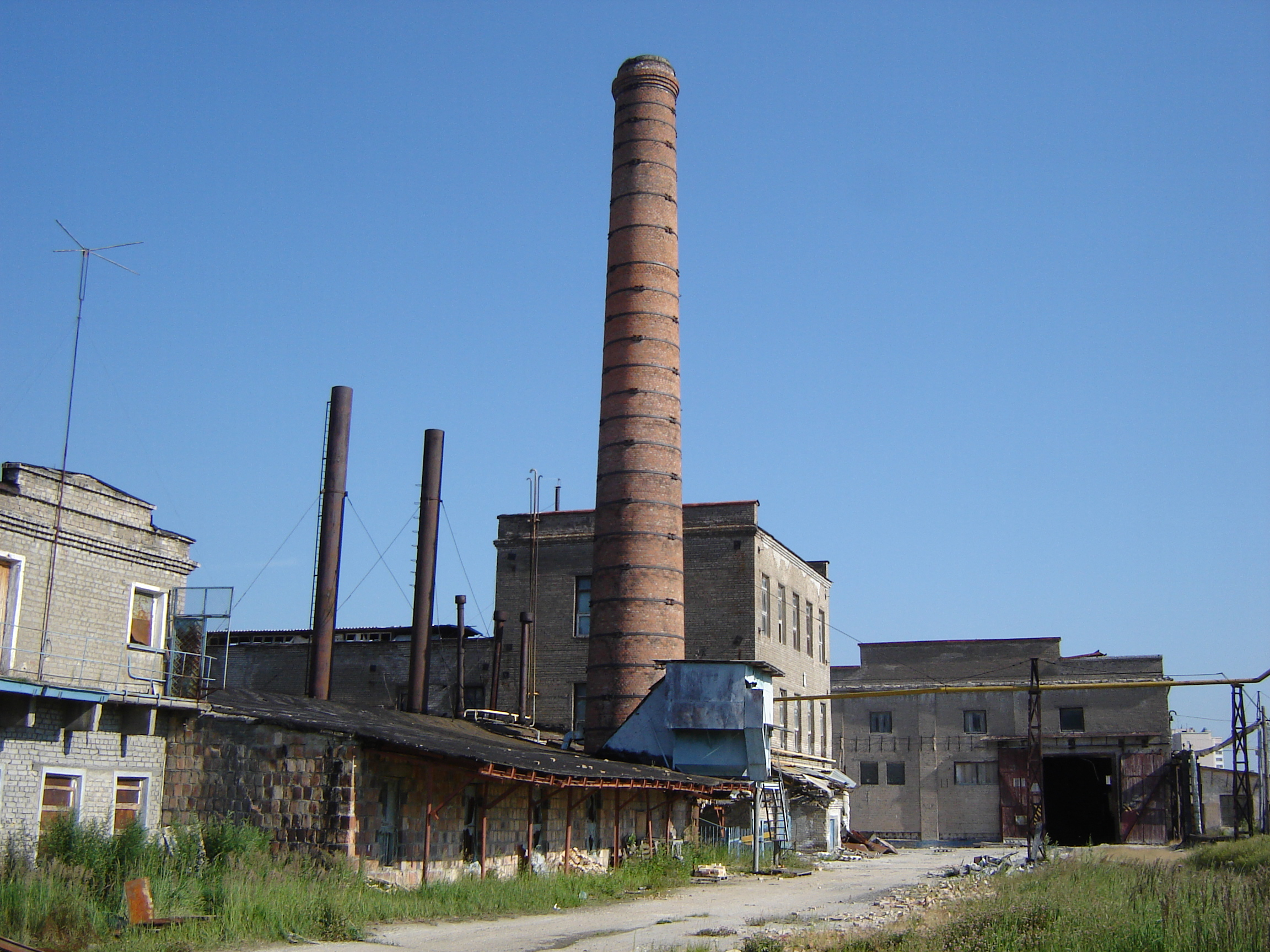 Konakovo semiporcelain factory. July 2008